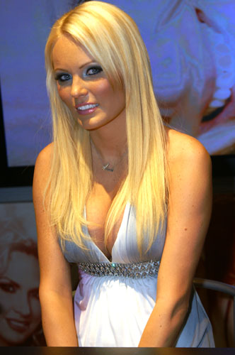 Hanna Hilton at the 2009 AVN Expo